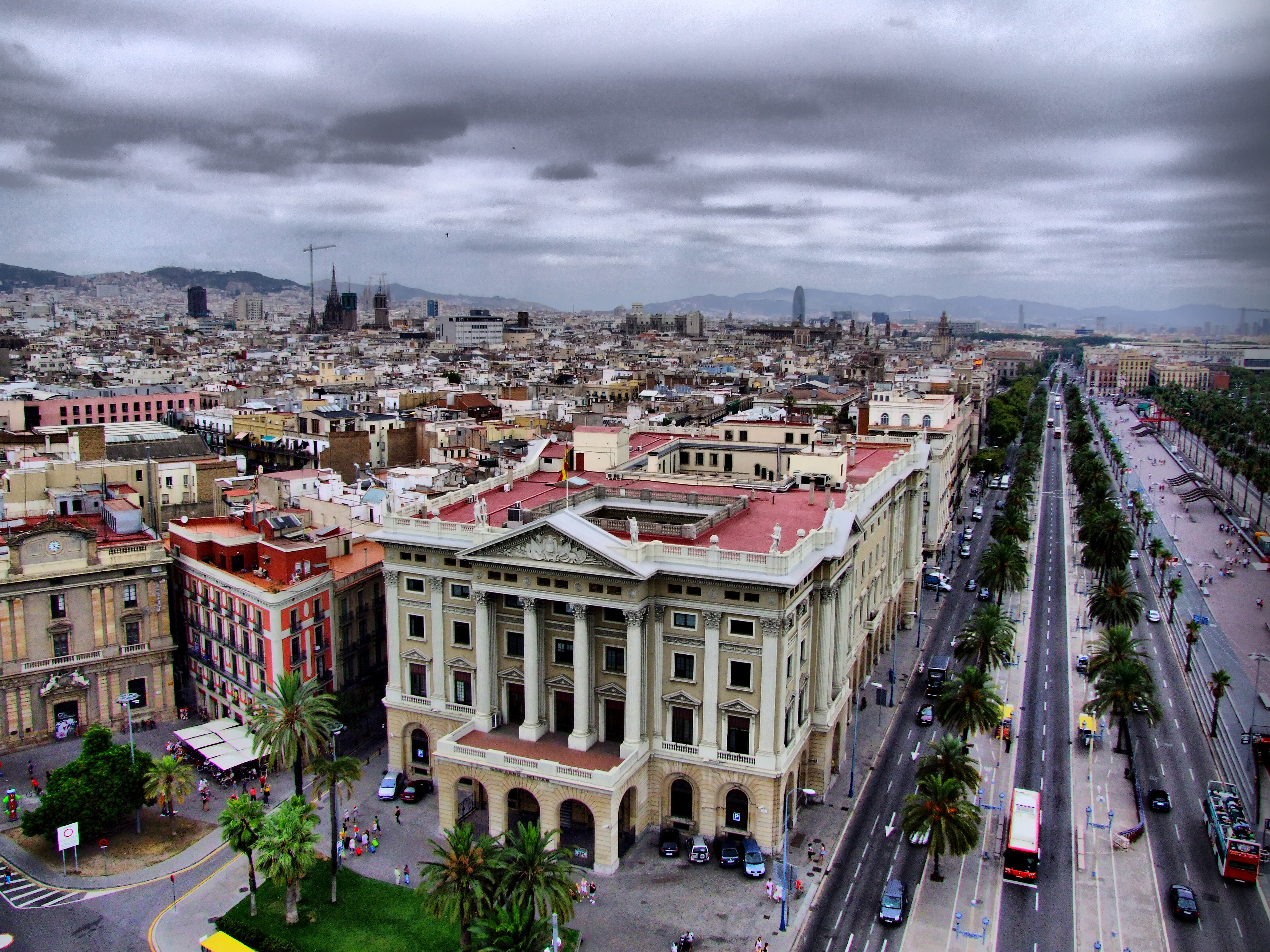 A shot of Barcelona east from the top of the Columbus column.